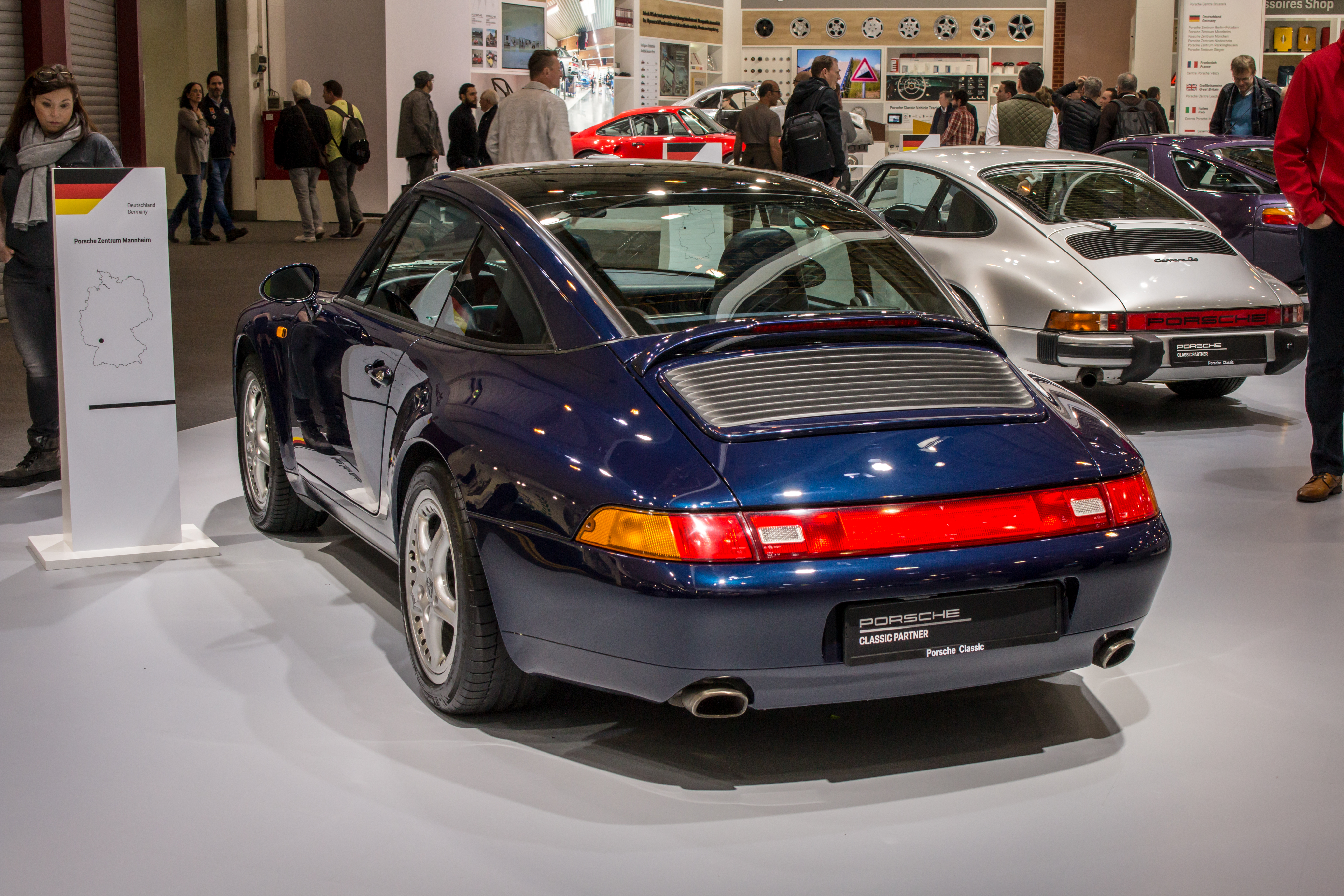 Porsche, Techno-Classica 2018, Essen